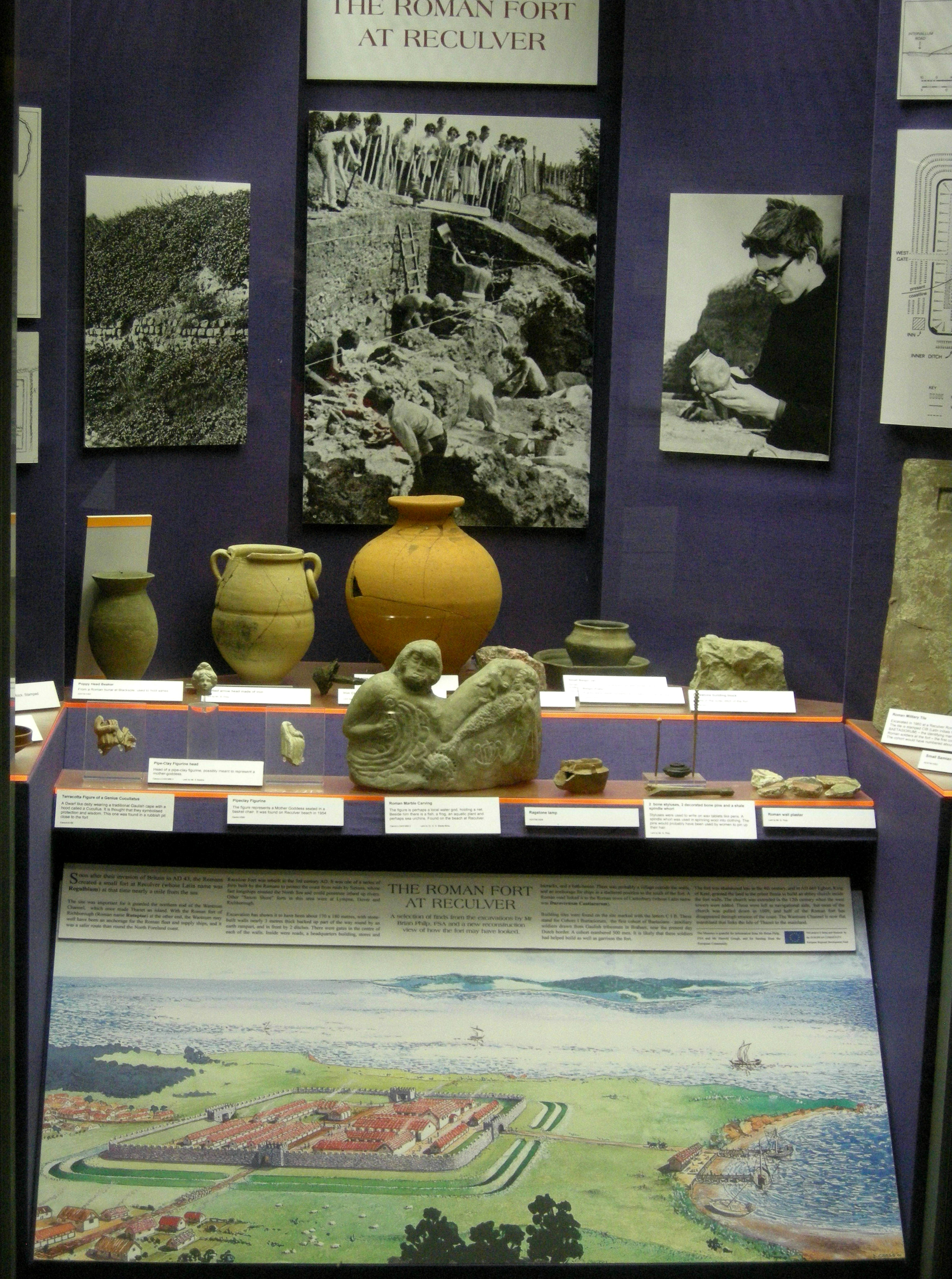 Herne Bay Museum, Herne Bay, Kent. Display about the Roman fort at Reculver.